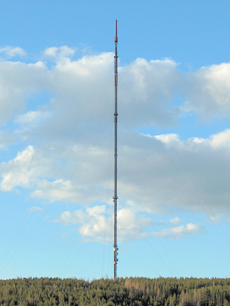 Tiirismaa TV mast The TV mast in Tiirismaa, Hollola, on the one of the highest hills in southern Finland.